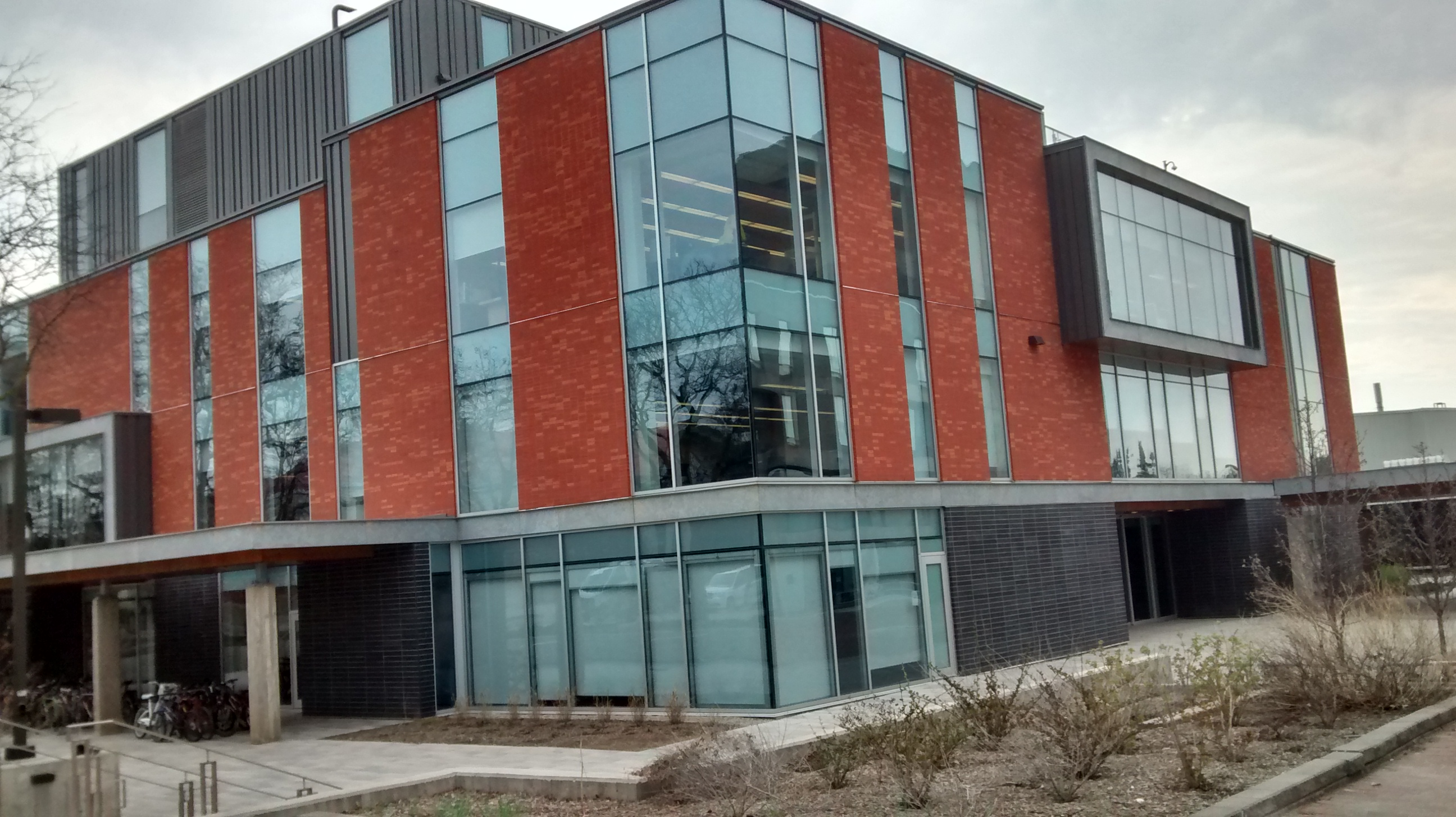 University of Guelph Engineering Building (Alexander building).